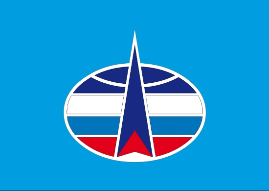 Flag of the Russian Military Space Troops.